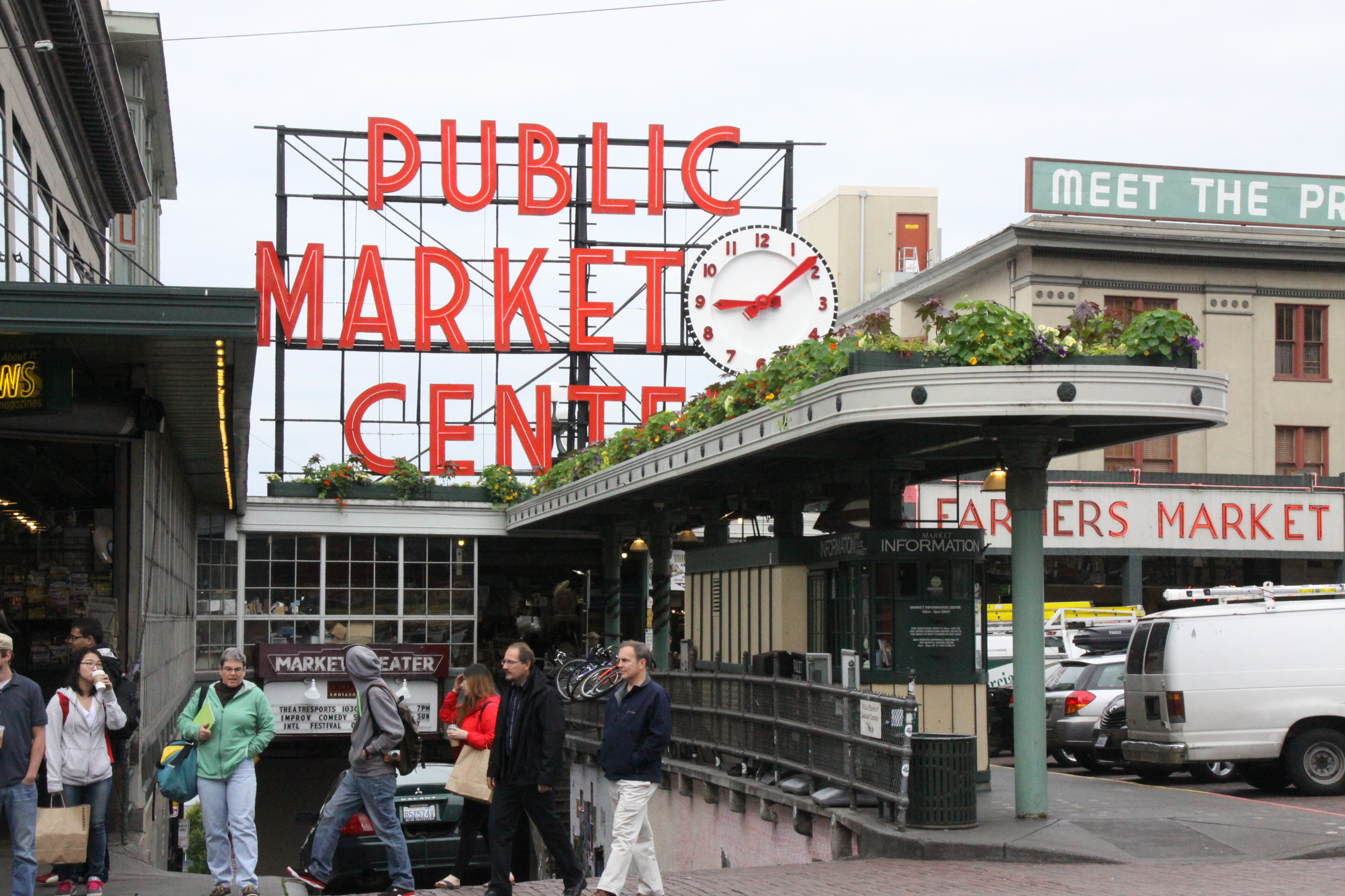 Pike Place Market, Seattle